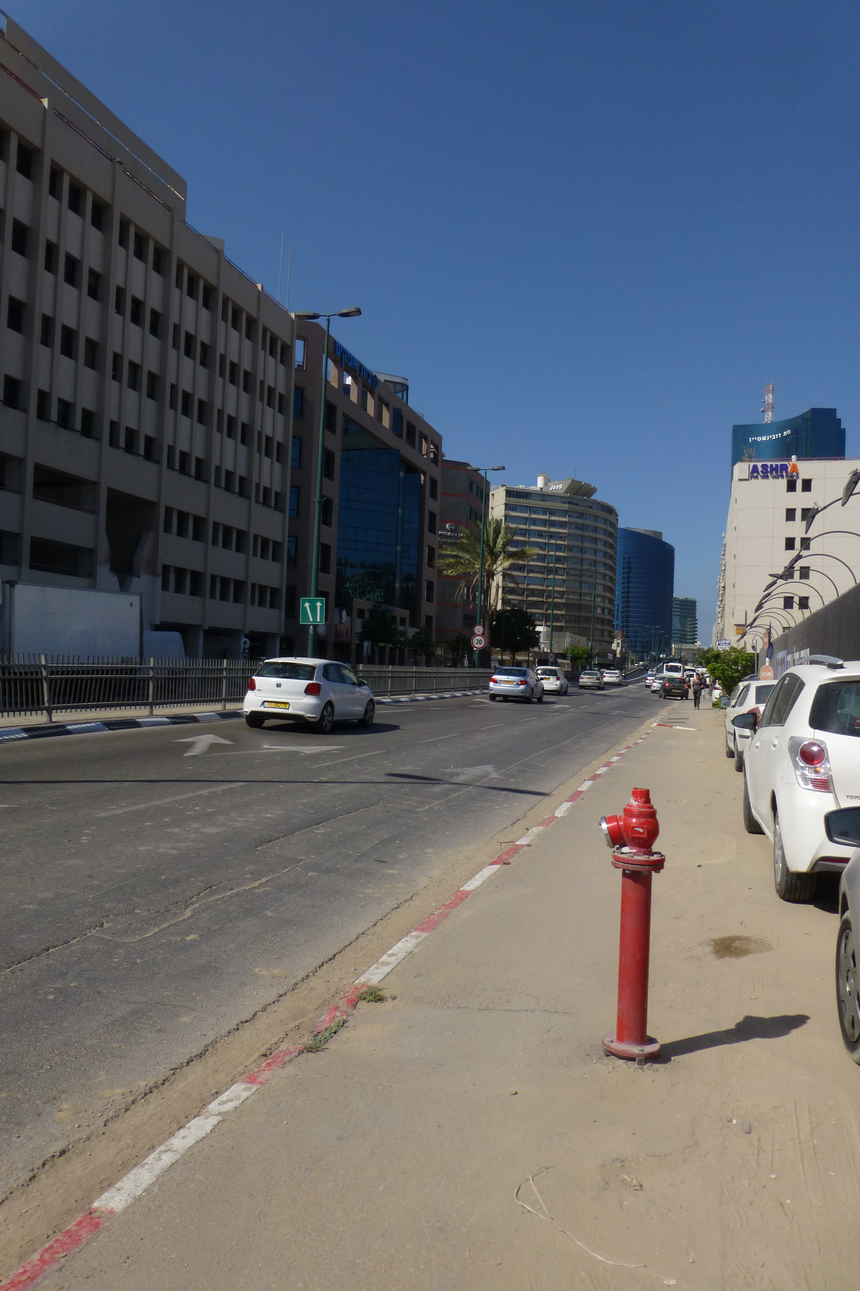 Begin Road, Tel Aviv-Yafo